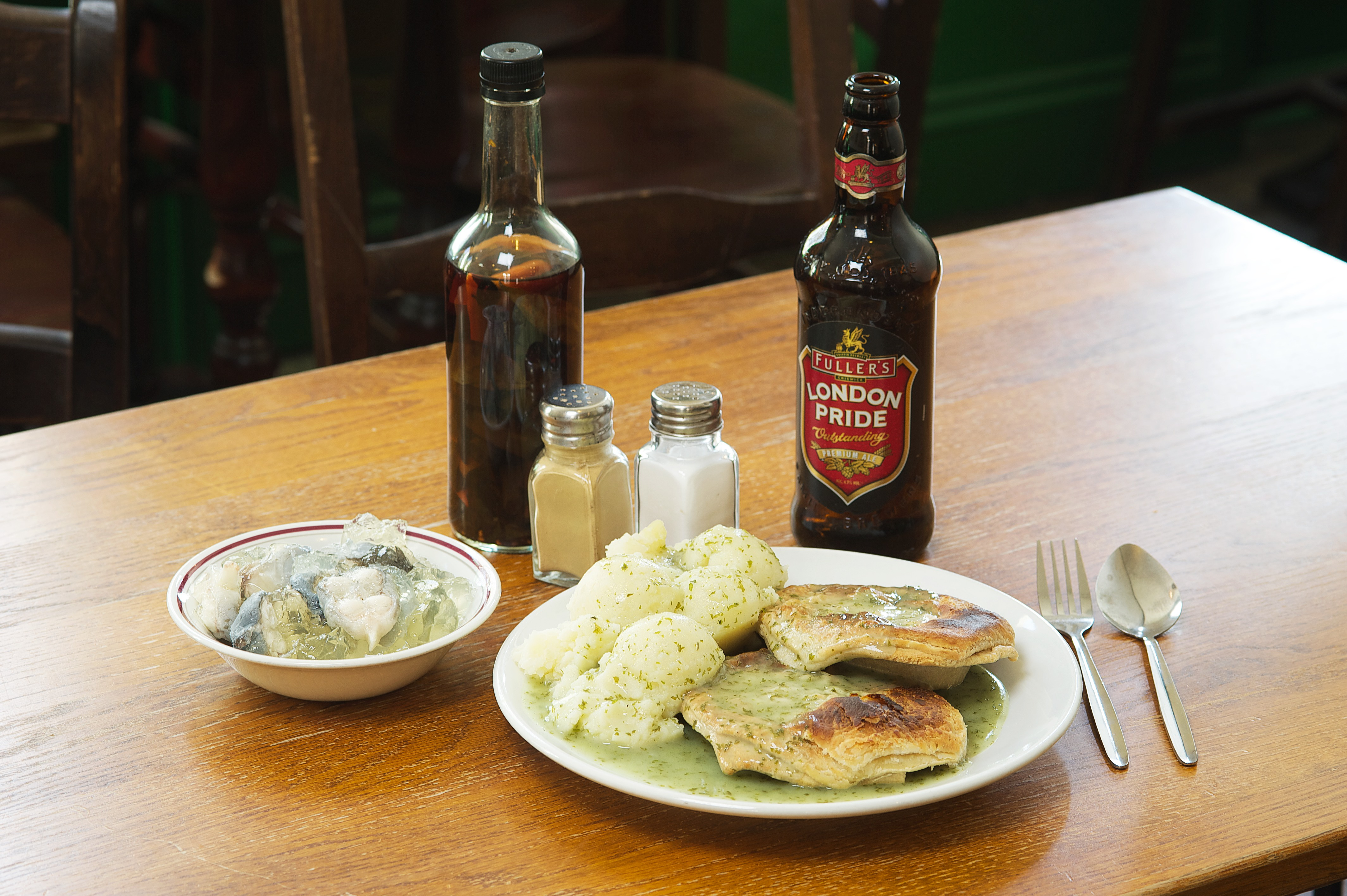 Pie mash and liquor with jellied eels from Goddards at Greenwich. Traditional East End London meal